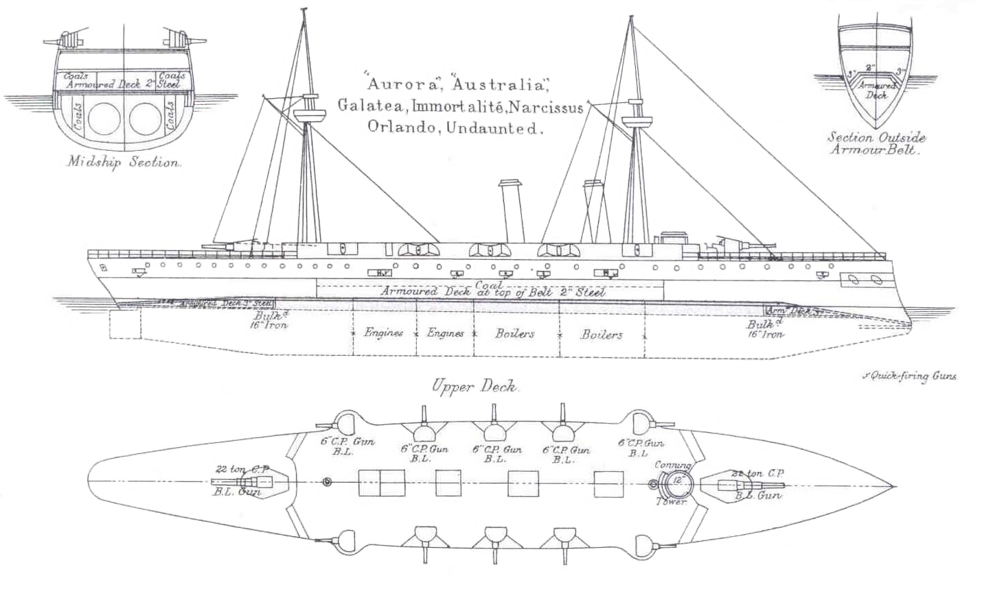 Right elevation, plan and hull cross-section drawings of the British Orlando class armoured cruisers, launched 1886-87